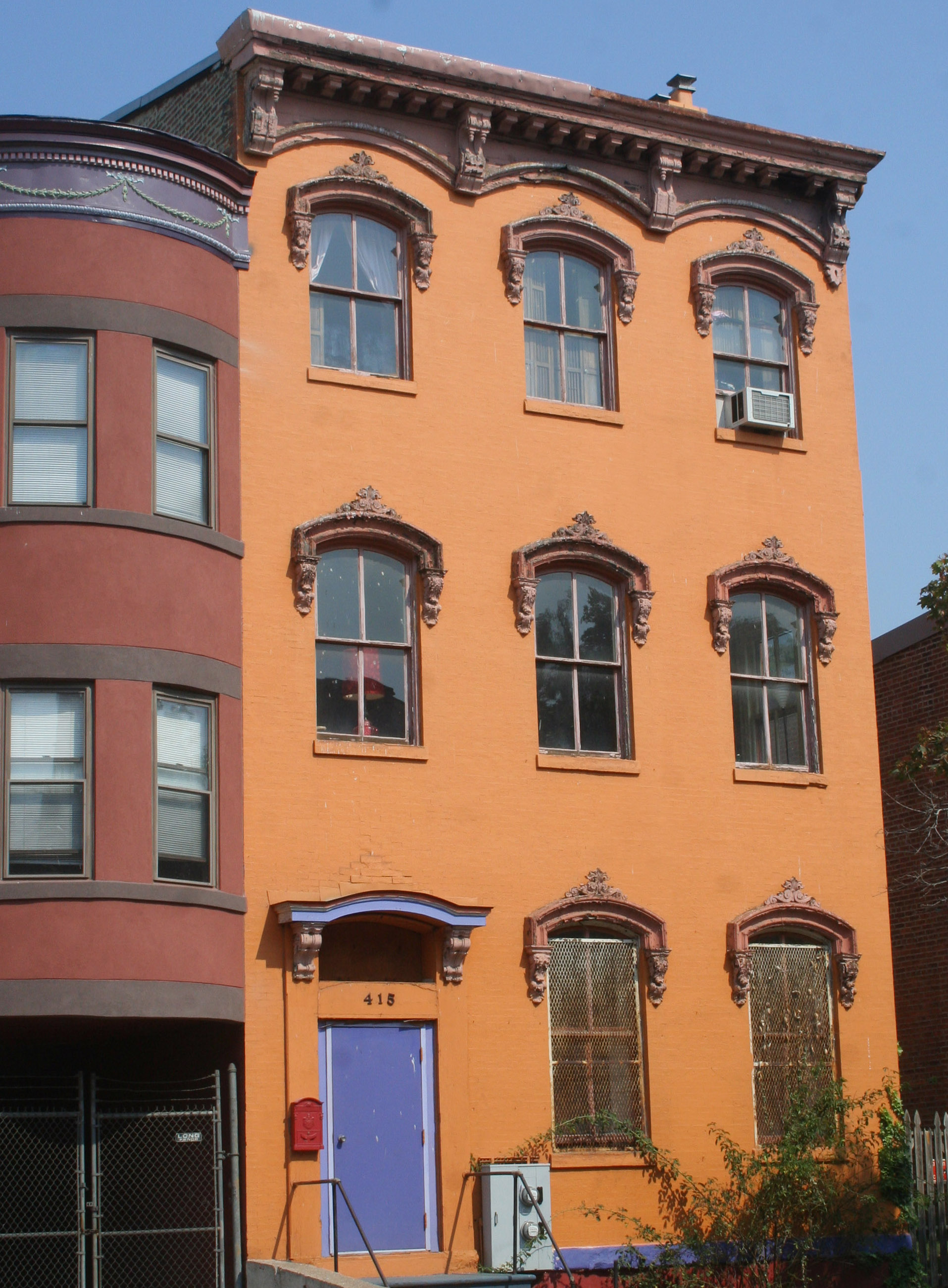 Built in the 1860's for Joseph Prather, a butcher at the nearby Northern Liberty Market. After Prather, the house became the first DC home of the Young Men's Hebrew Association (1913-1914) which served the recreational and spiritual needs of young local Jews. The YMHA evolved into today's Jewish Community Centers (DC, Fairfax,VA & Rockville, MD). After the YMHA moved out, this house became the Hebrew Home for the Aged (1914-1923) which today operates in Rockville, MD. Shomrei Shabbos, an Orthodox Jewish synagogue, occupied this house for about 20 years. In 1947, the Church of Jesus Christ moved in, remaining until 1980. Mother Lean Sears founded the Church of Jesus Christ after nearby Bible Way Church refused to let women preach. Shortly after the Church of Jesus Christ moved out, the Metropolitan Community Church, a Christian church with a special ministry to the gay, lesbian, bisexual and transgendered community, took over the space (1984), where they remained until completion of a new ministry facility one block away in 1992. Today the home is in private hands and a contributing property to the Mount Vernon Square Historic District.